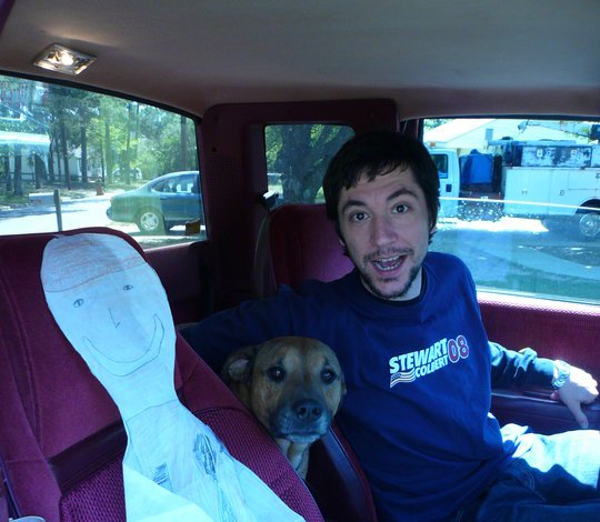 An image depicting the "Flat Self", Flat Stanley variation.